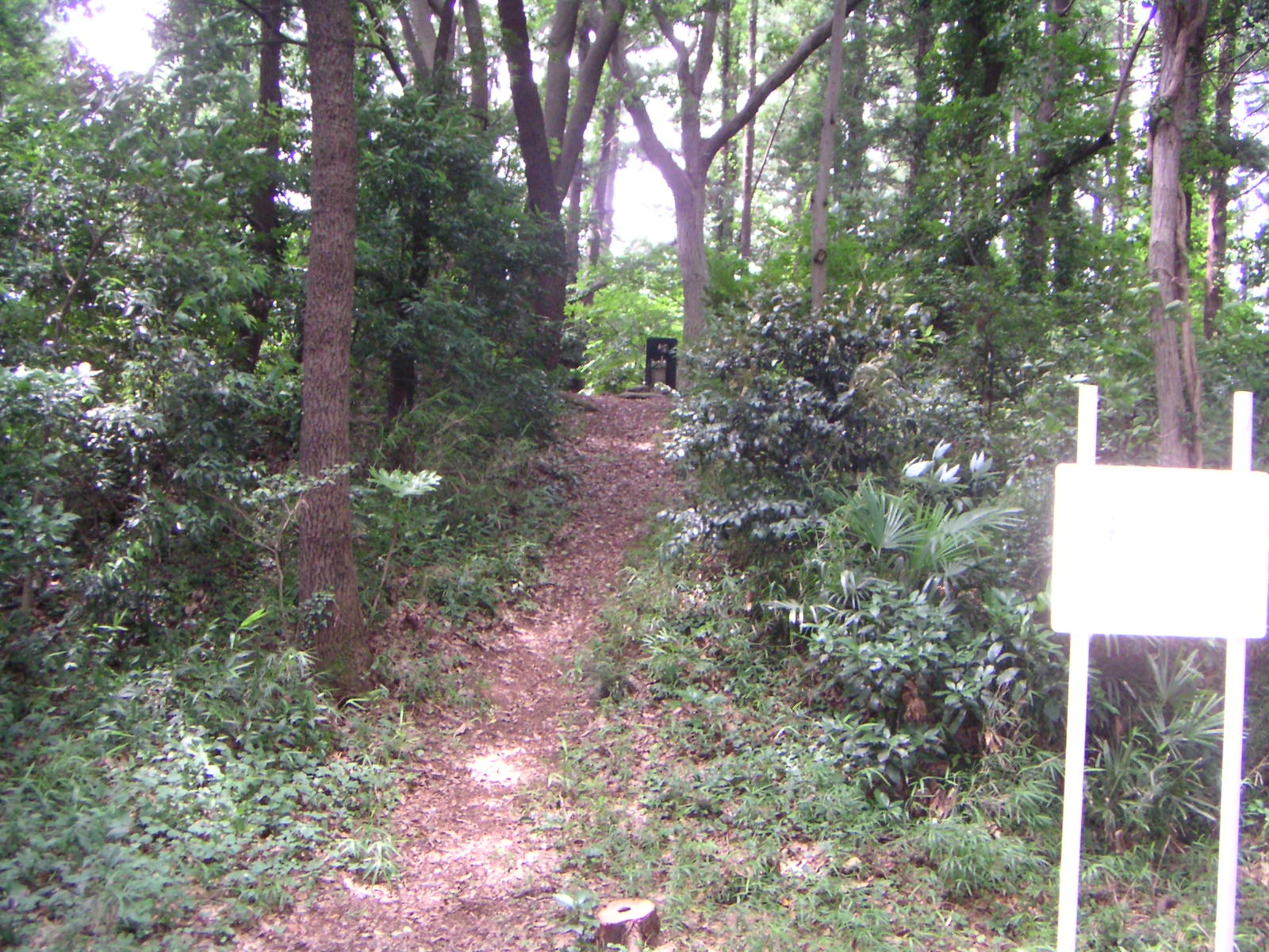 Kawaraduka Kofun #1 in Matsudo,Chiba